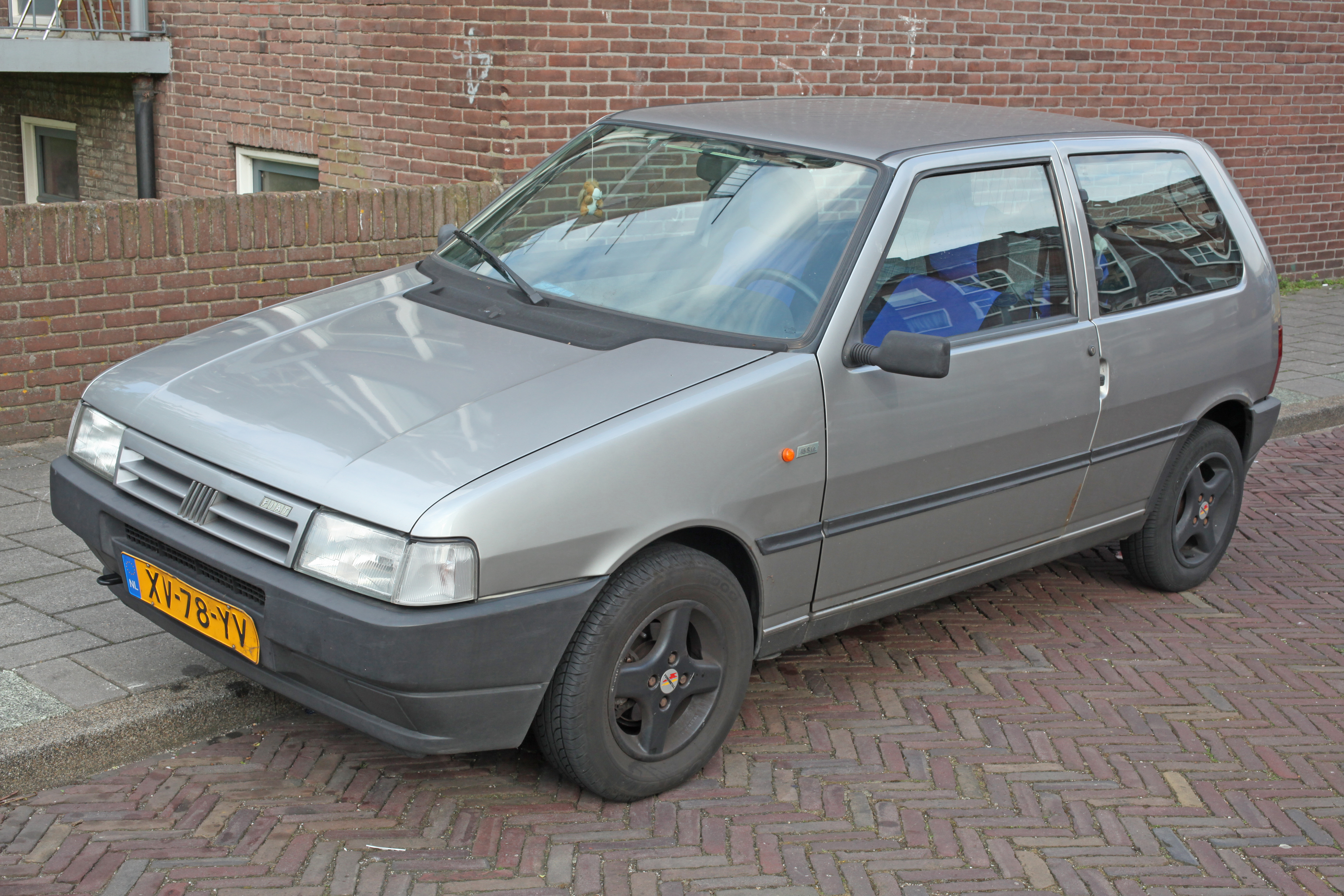 1989 Fiat Uno